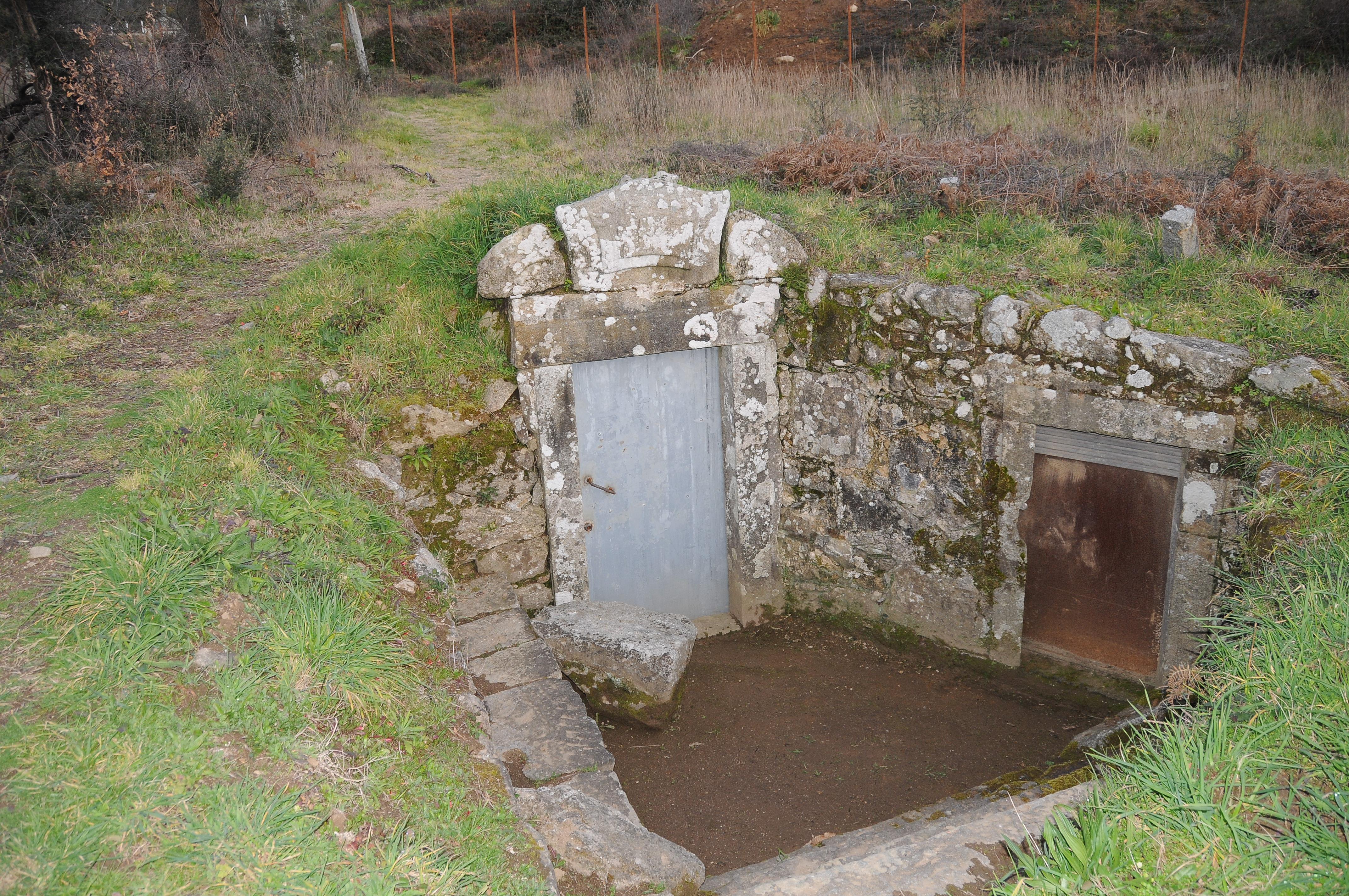 Mina do Dr. Nozes, in Sete Fontes, Braga, Portugal.